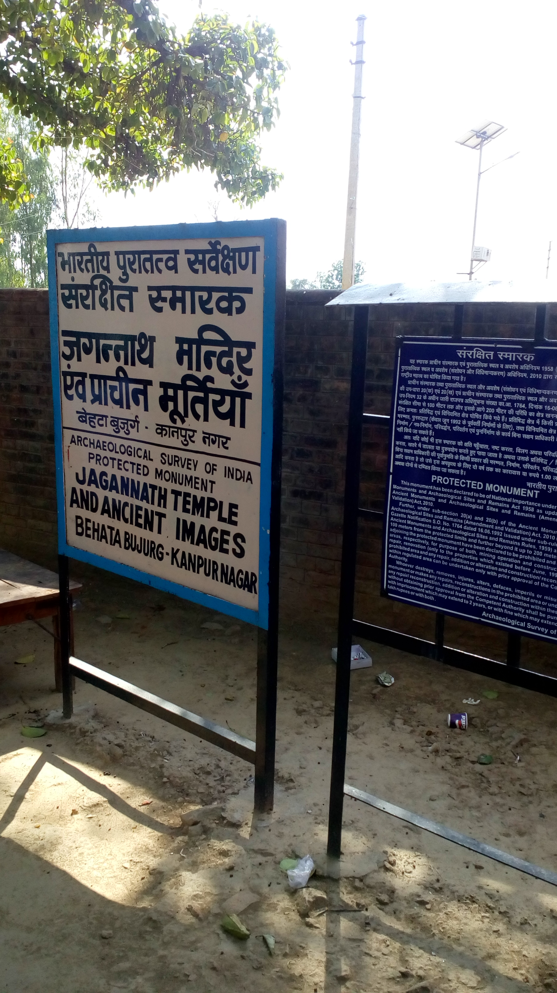 Behta bujurg temple (ASI inscription)